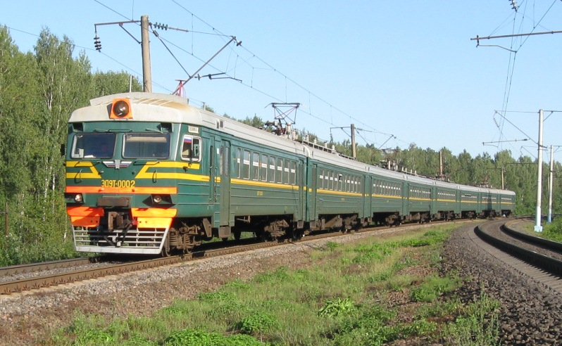 ER9M-562 EMU-train between Klyukovniki and Navlya stations (Bryansk region, Russia)